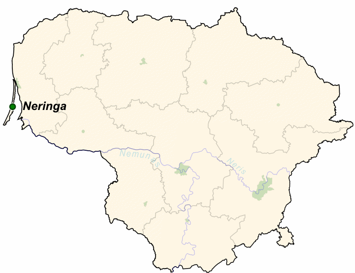 Neringa on a map of Lithuania